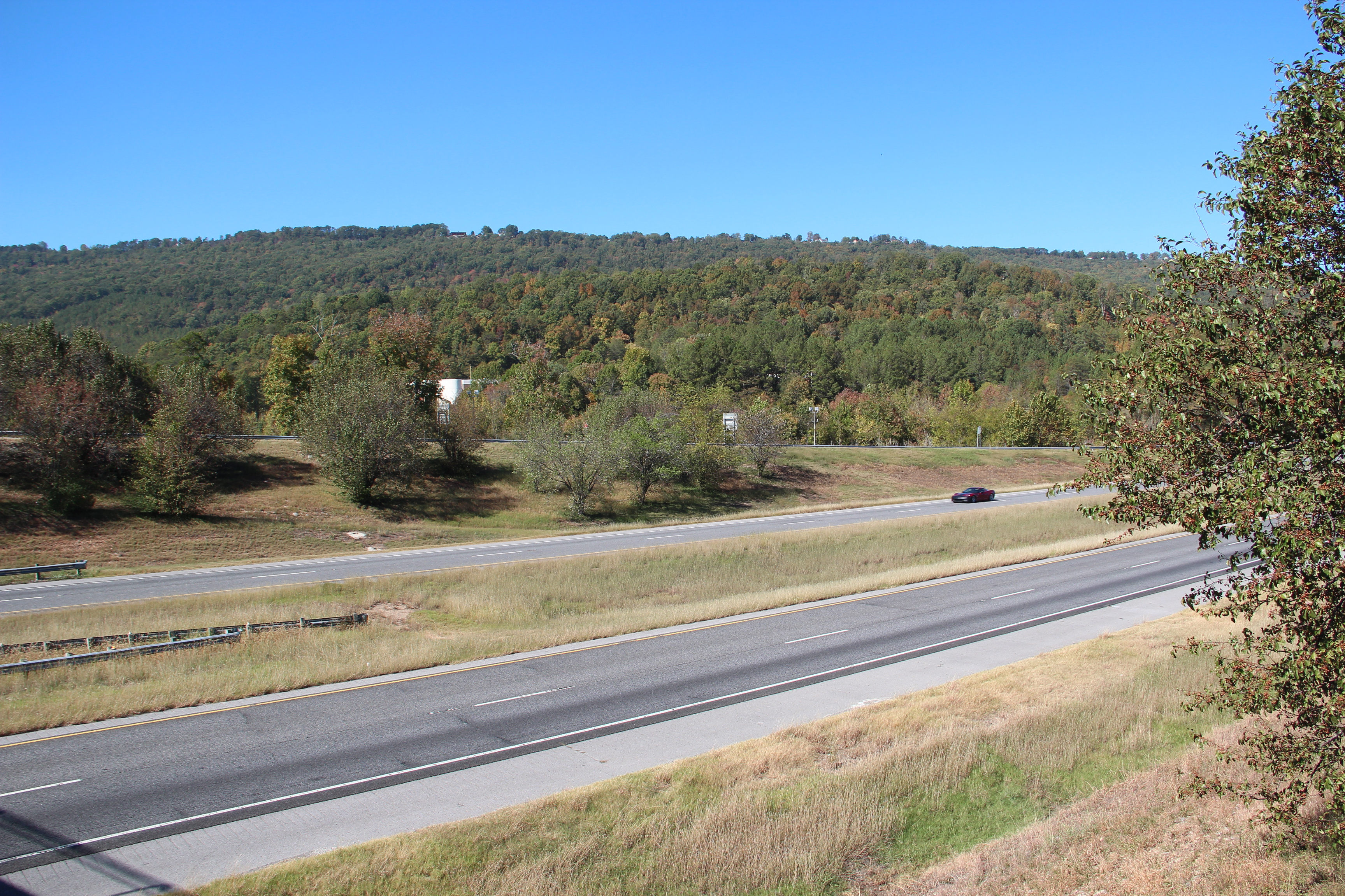 Sand Mountain, viewed from an I-59 overpass in Trenton, Georgia